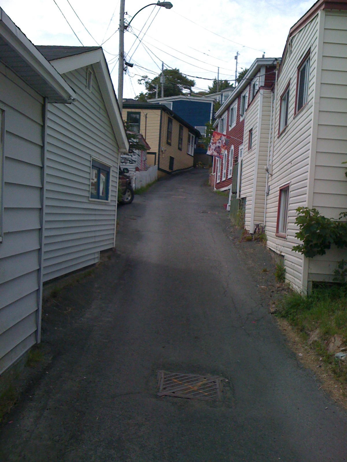 Street Scene in The Battery